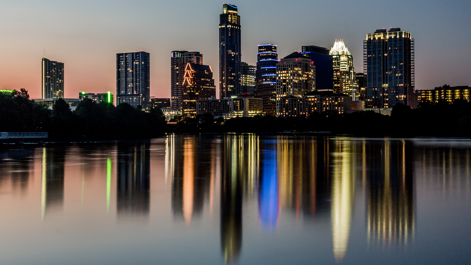 The Austin cityscape as seen from the new boardwalk on Lady Bird Lake